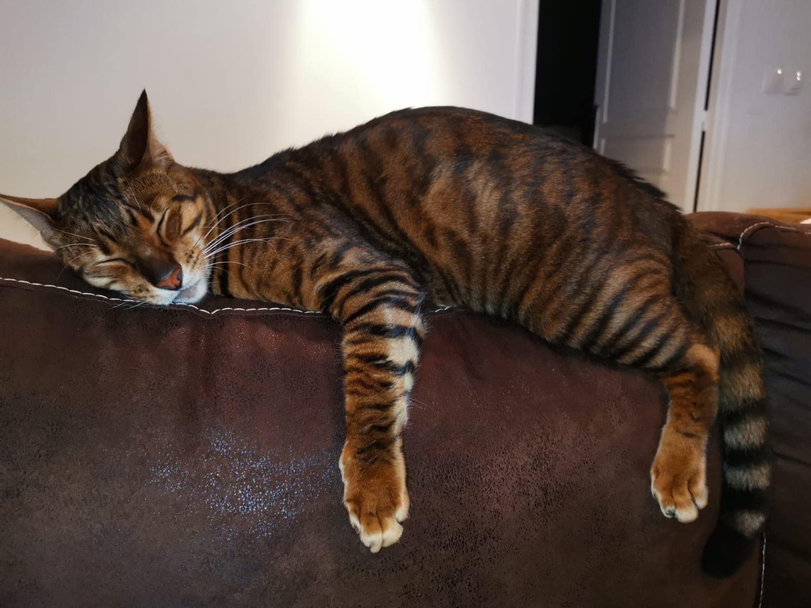 Toyger Cat